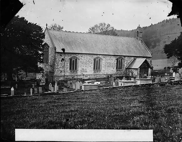 1 negative : glass, wet collodion, b&w ; 10 x 12.5 cm.